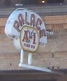 The Palace Hotel sign in Prescott, Az